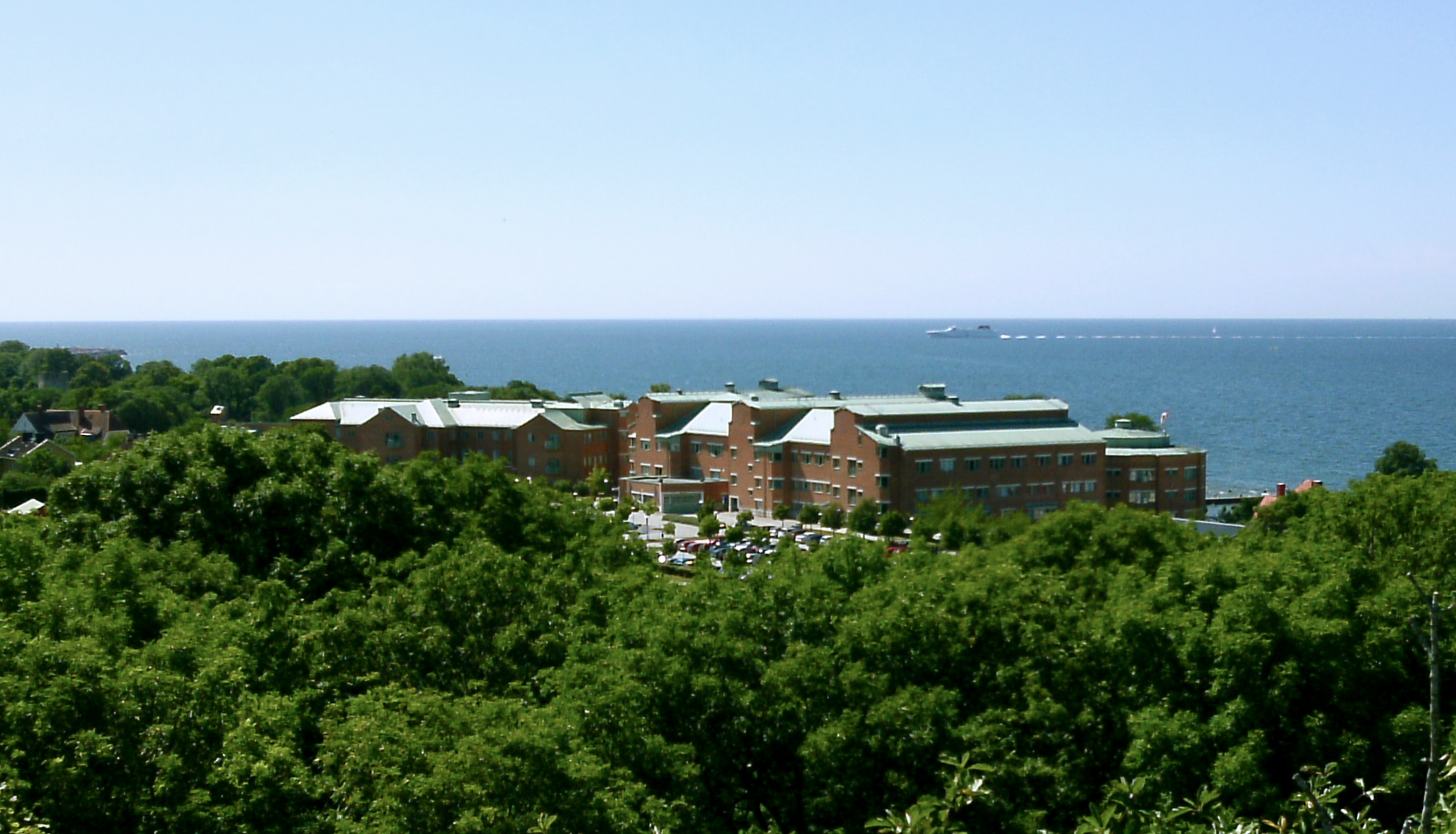 Visby hospital seen from Galgberget, Visby, Sweden.